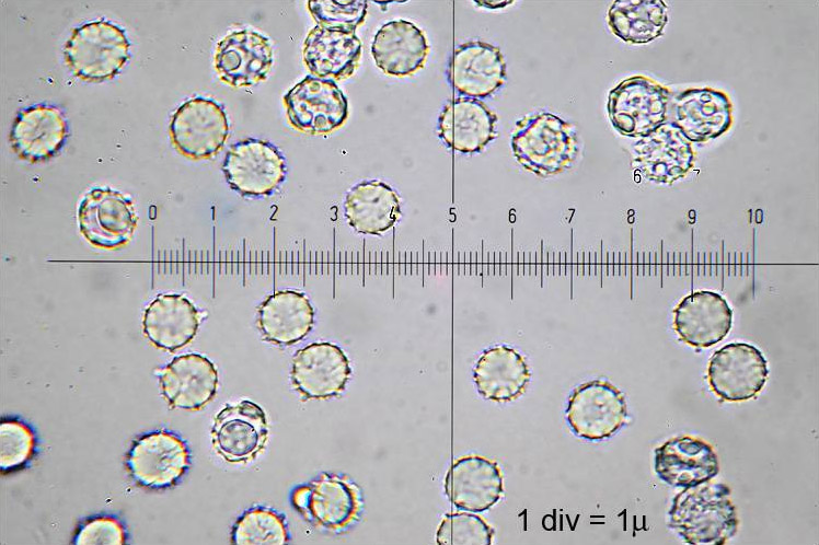 The spores of the mushroom Lactarius volemus (Fr.) Fr. Specimen from which the spores were obtained was collected from Bovec basin, East Julian Alps, Posočje, Slovenia.